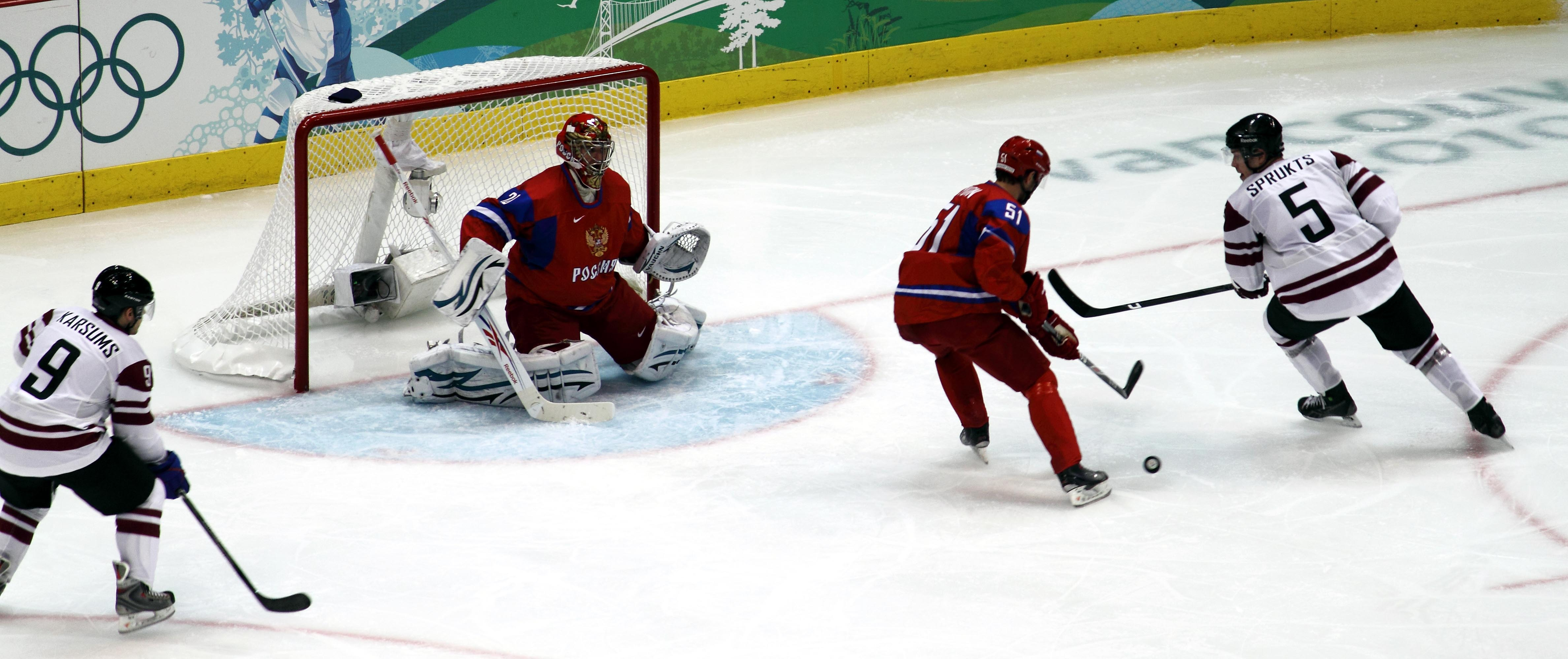 Russia vs Latvia. 2010 Vancouver Olympic Games.